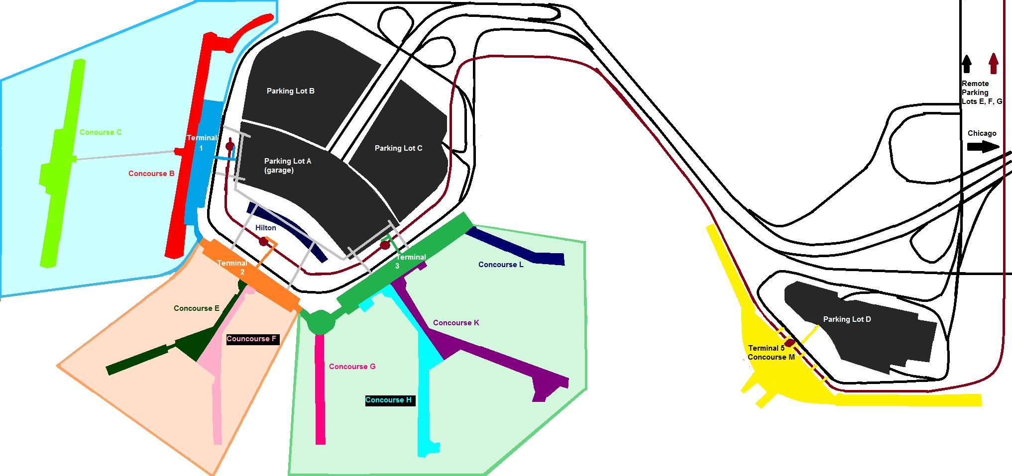 A simple terminal map of . Created by me with the help of Google Earth and [ OHare's terminal maps] .